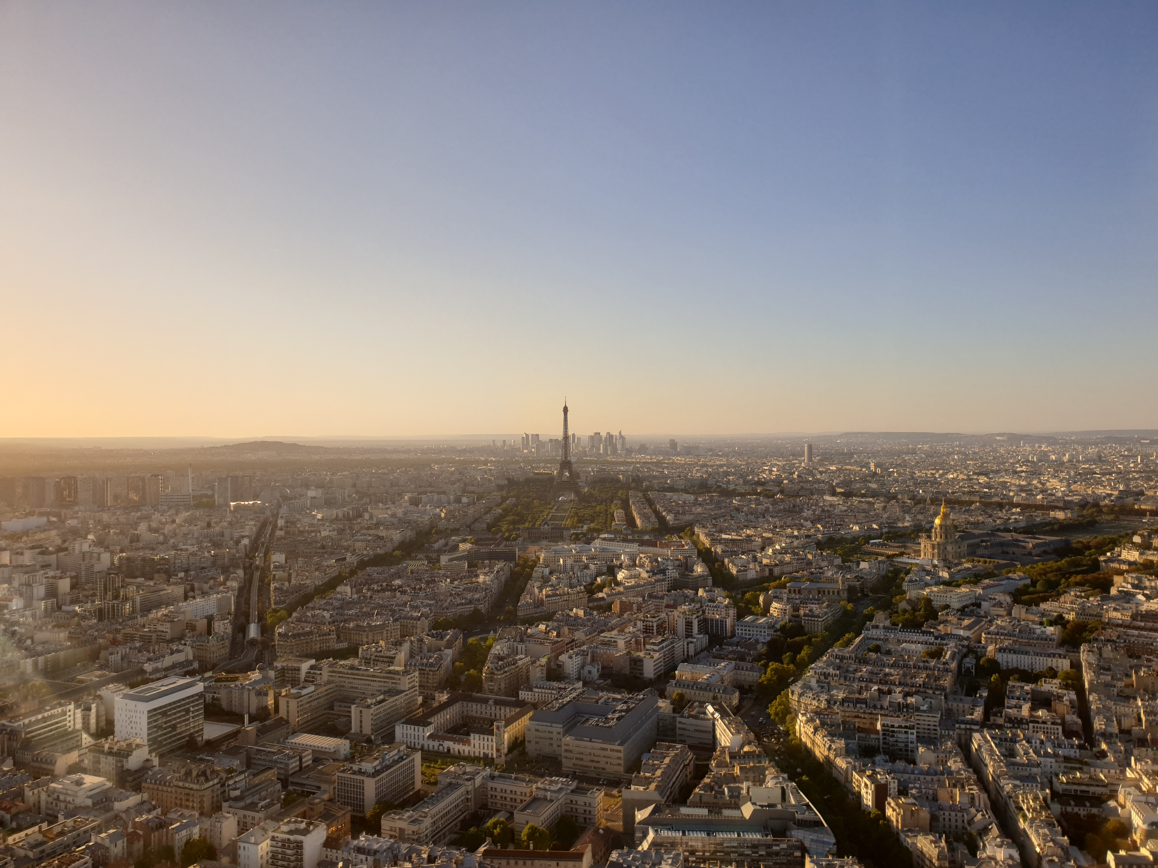 Eiffel Tower seen from Tour Montparnasse